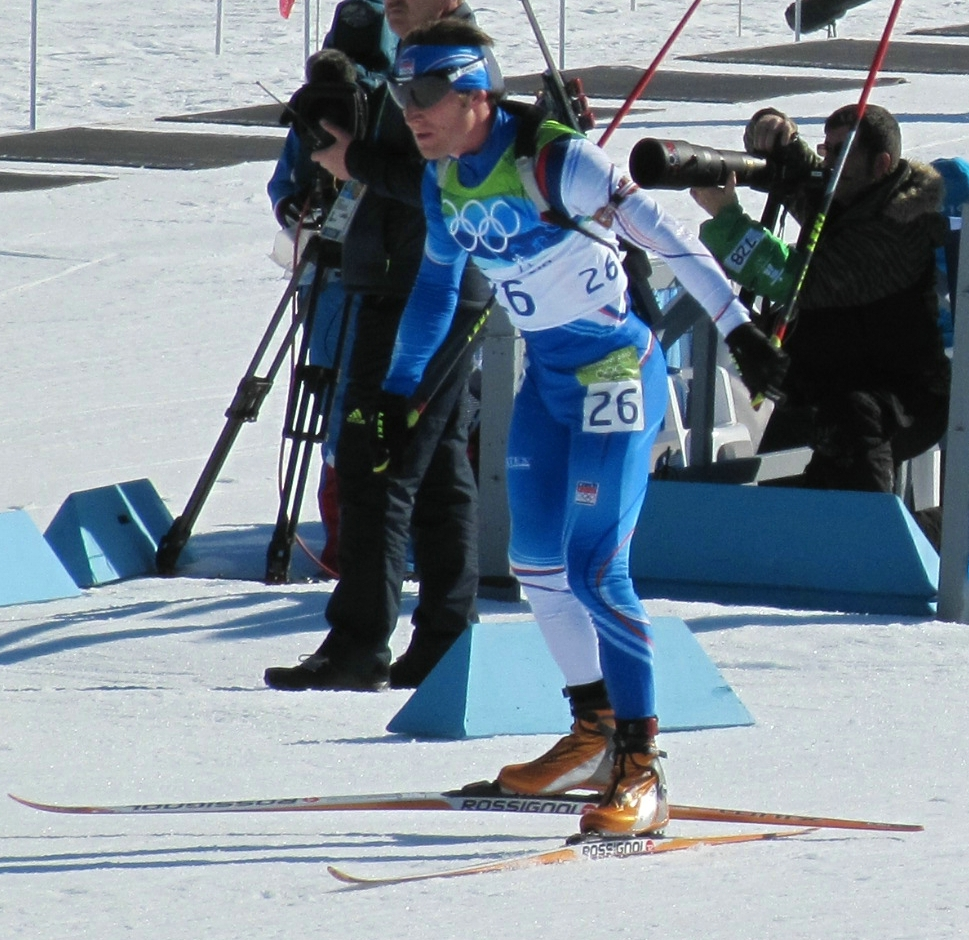 Michal Šlesingr